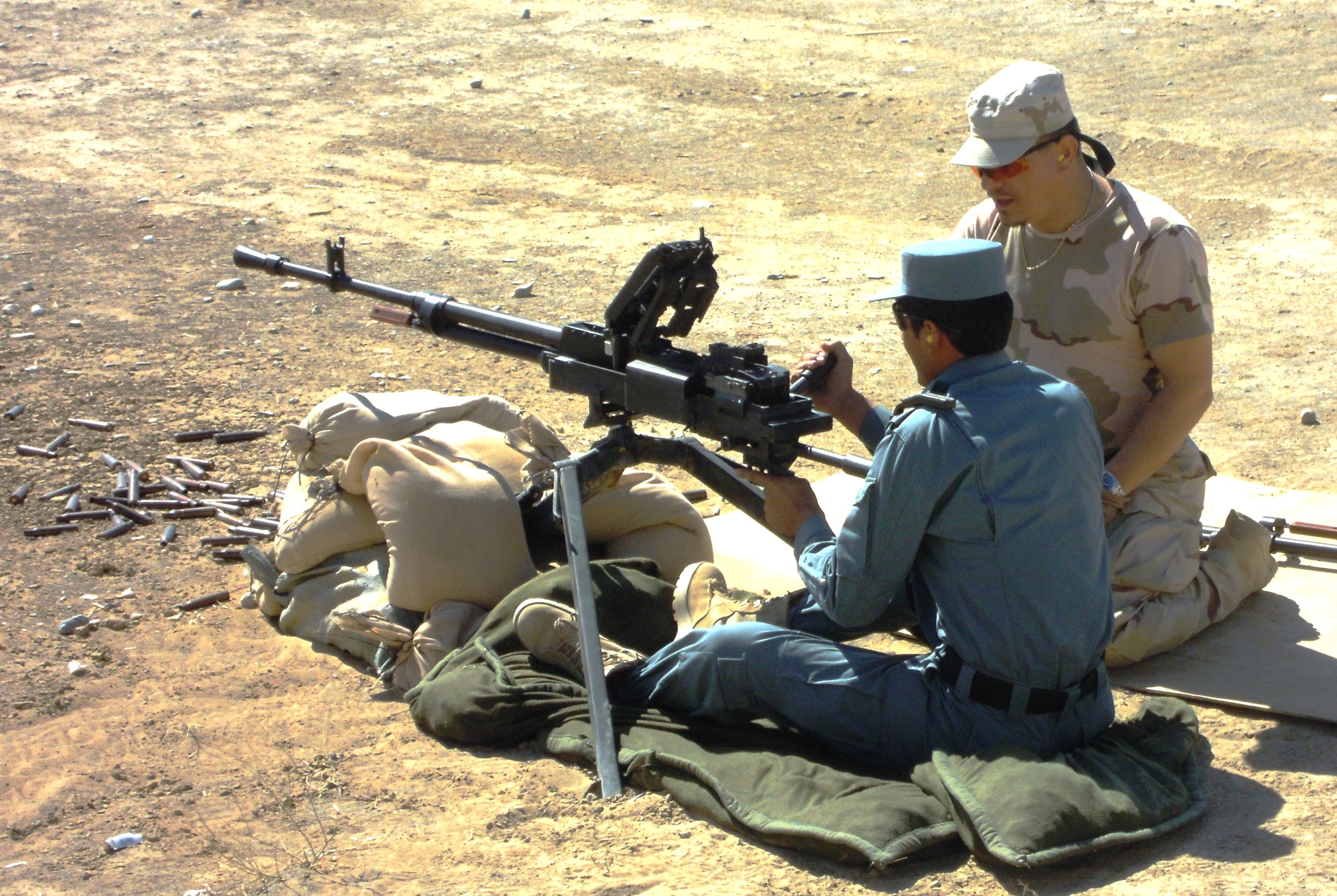 A Romanian Gendarmerie instructor (right) shows an Afghan Uniform Police non-commissioned officer how to use the Russian-made NSV 12.7 millimeter machine gun at the Spin Boldak ANP Training Cener, Oct 25, 2011, at Spin Boldak, Afghanistan. The Romanian Gendarmerie trained ten ANA officers and NCOs on the NSV, PKM 7.62 millimeter Squad Automatic Weapon and the RPK light machine gun. (Photo by Sgt. First Class Barbulescu Alcor)